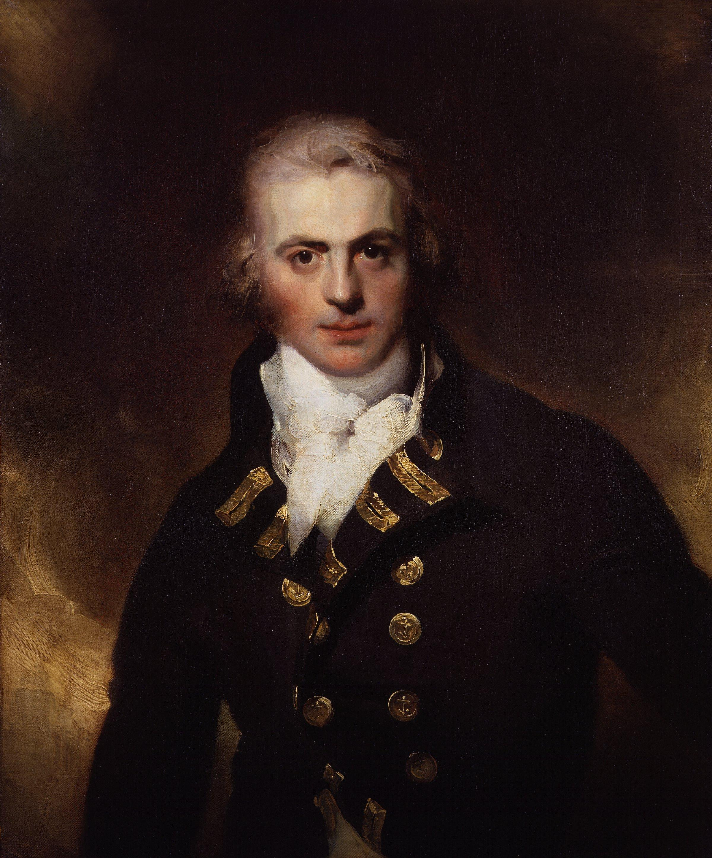 Sir Graham Moore, by Sir Thomas Lawrence (died 1830), given to the National Portrait Gallery, London in 1898. All images in this batch have been confirmed as author died before 1939 according to the official death date listed by the NPG.